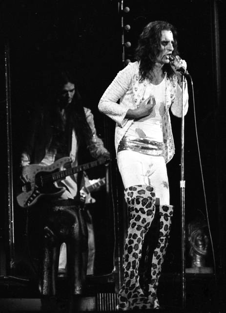 Alice Cooper performing on the 1973 Billion Dollar Babies Tour, with Dennis Dunaway in the background.